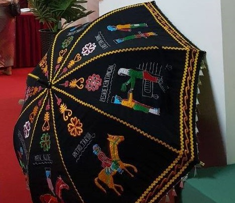 Payung masikhat - traditional umbrelly among the Alas people in Aceh (Indonesia)